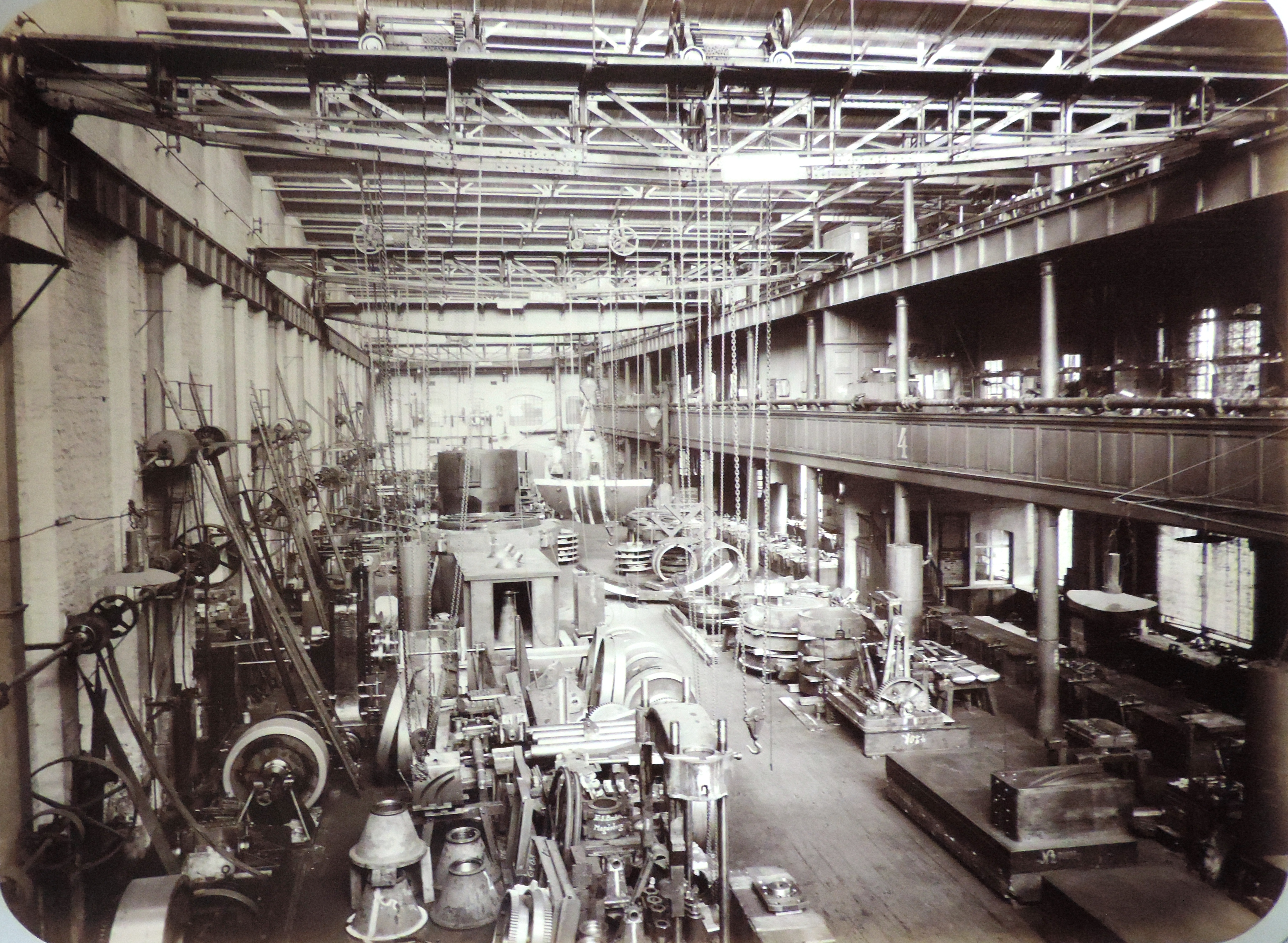 Grusonwerk, Magdeburg-Buckau, Germany